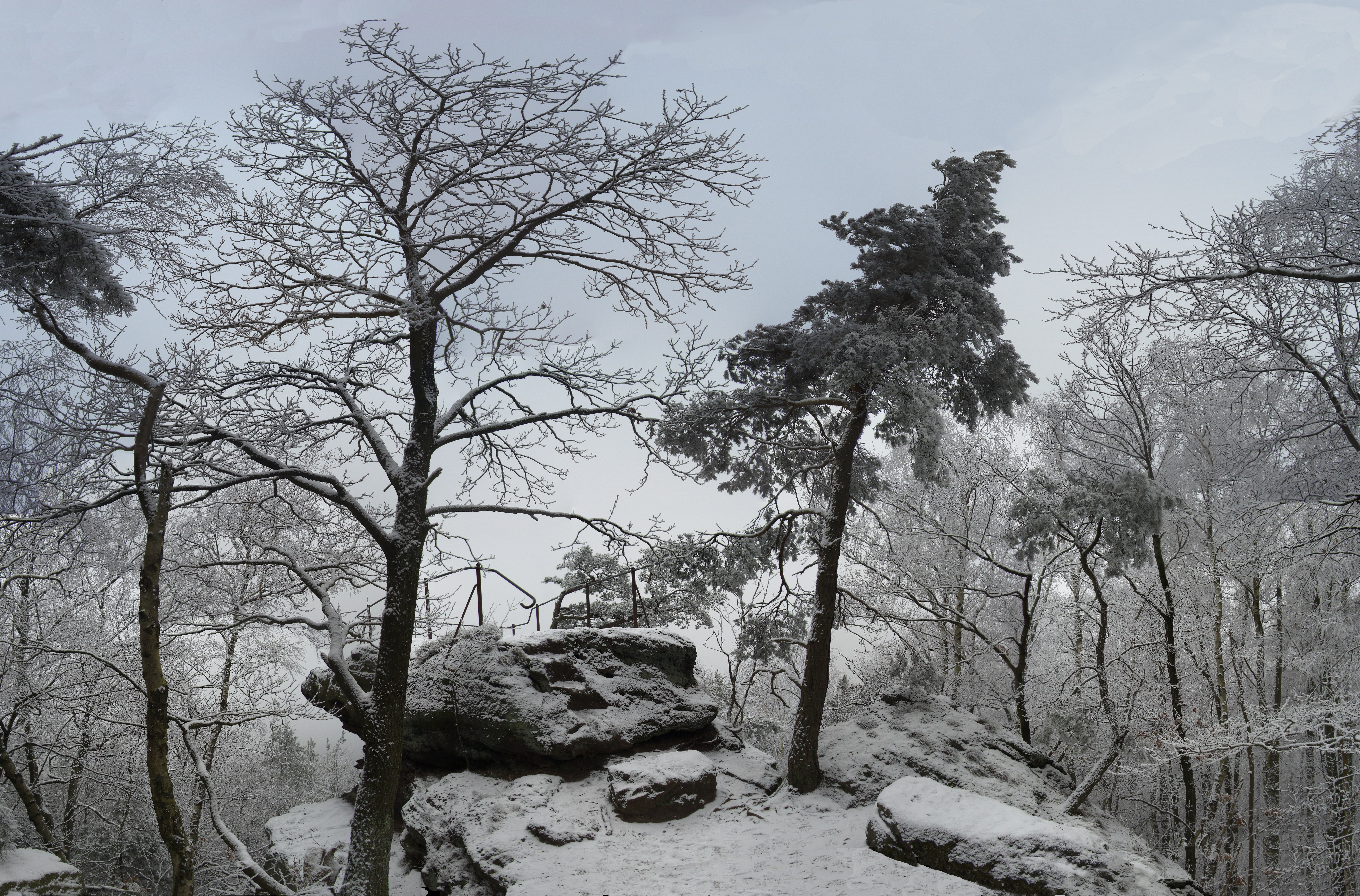 Vista-Rock on Drachenfels Mountain in Palatinate Forest near Bad Dürckheim